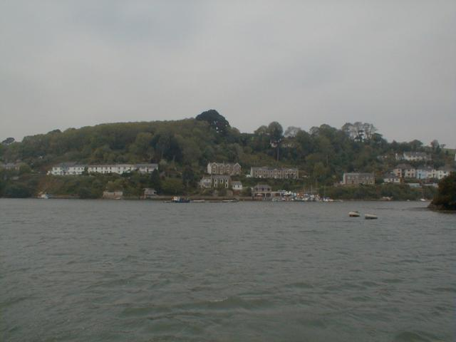 Truro River. With the village of Malpas on the shoreline and the Tresillian River flowing in from the right.